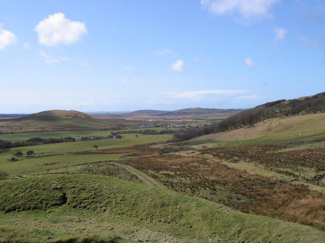 View from, and including the rim of the Iron Age fort at Dun Nosebridge. Looking towards Bowmore from the Iron age fort at Dun Nosebridge.